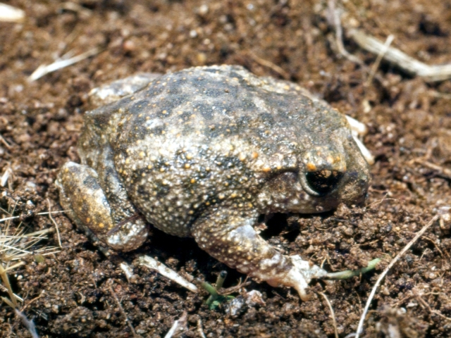 Alytes cisternasii